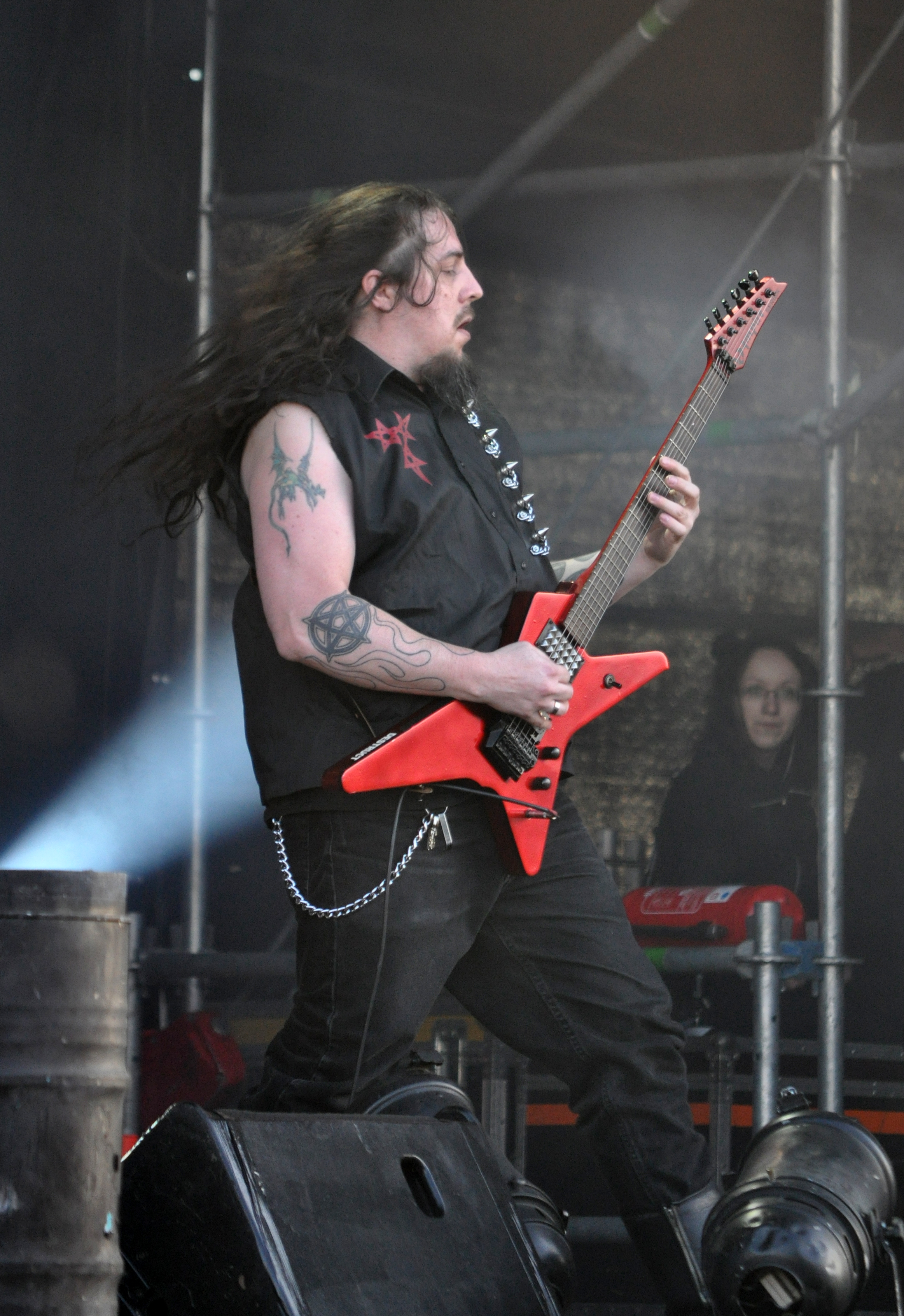 Immolation at Party.San Open Air 2012